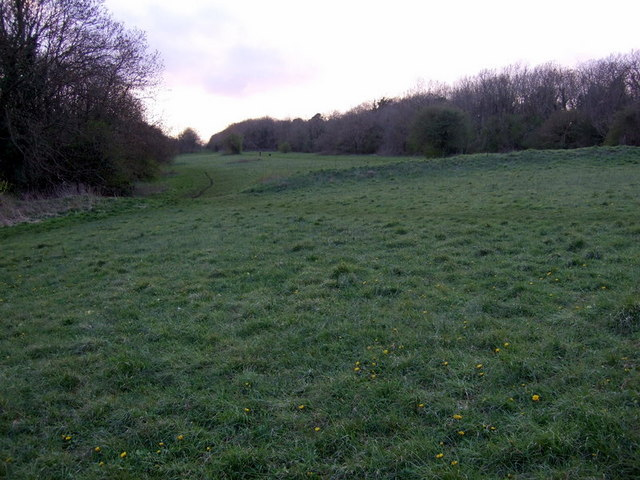 A picture of King's Weston Hillfort